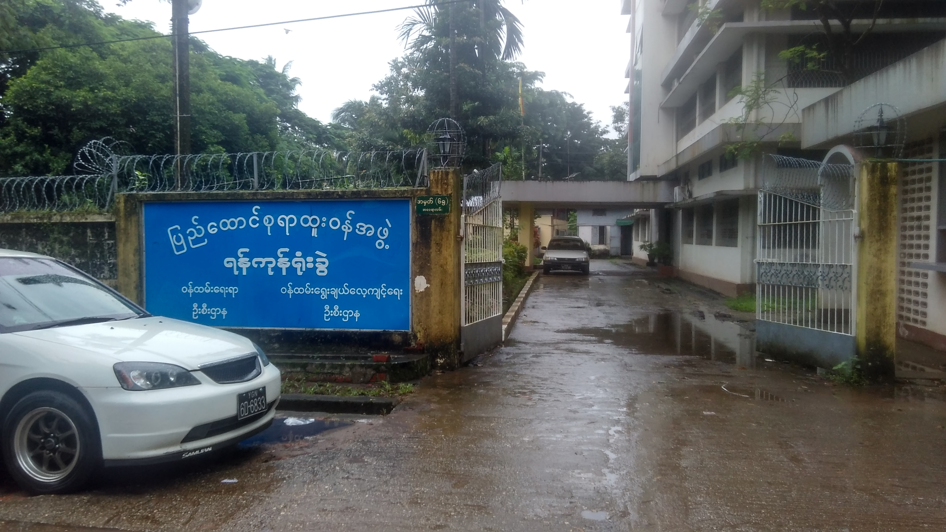 Pyidaungsu Yar Htoo Won (Yangon Branch) မြန်မာဘာသာ: ပြည်ထောင်စုရာထူးဝန်အဖွဲ့၊ ရန်ကုန်ရုံးခွဲ